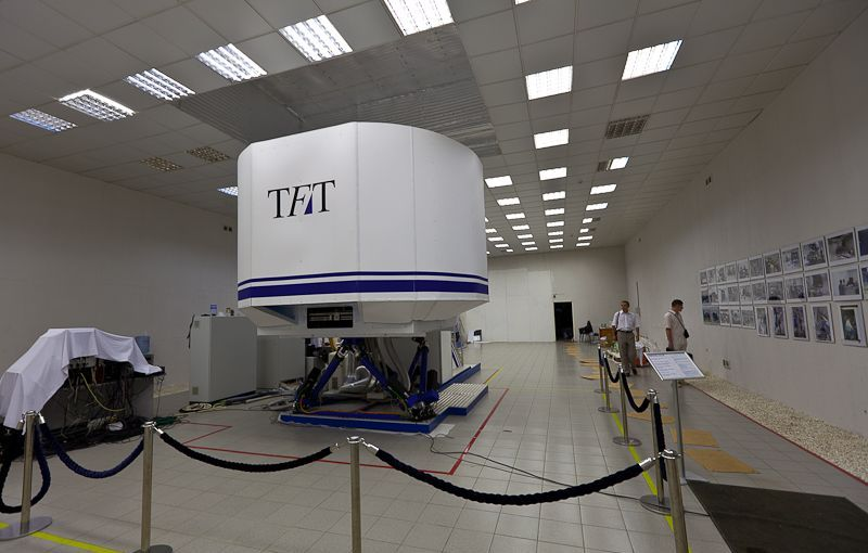 Boeing 737 flight simulator.